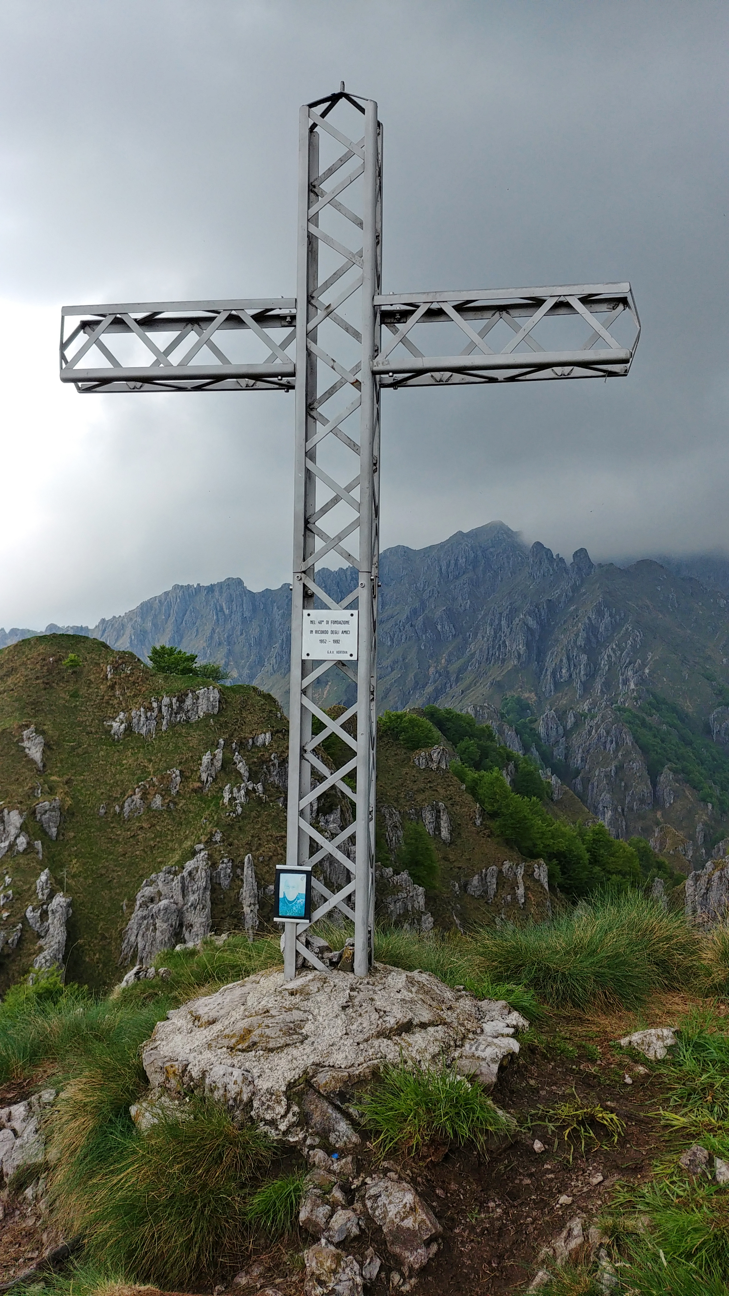 The cross on the mount Secretondo's summit